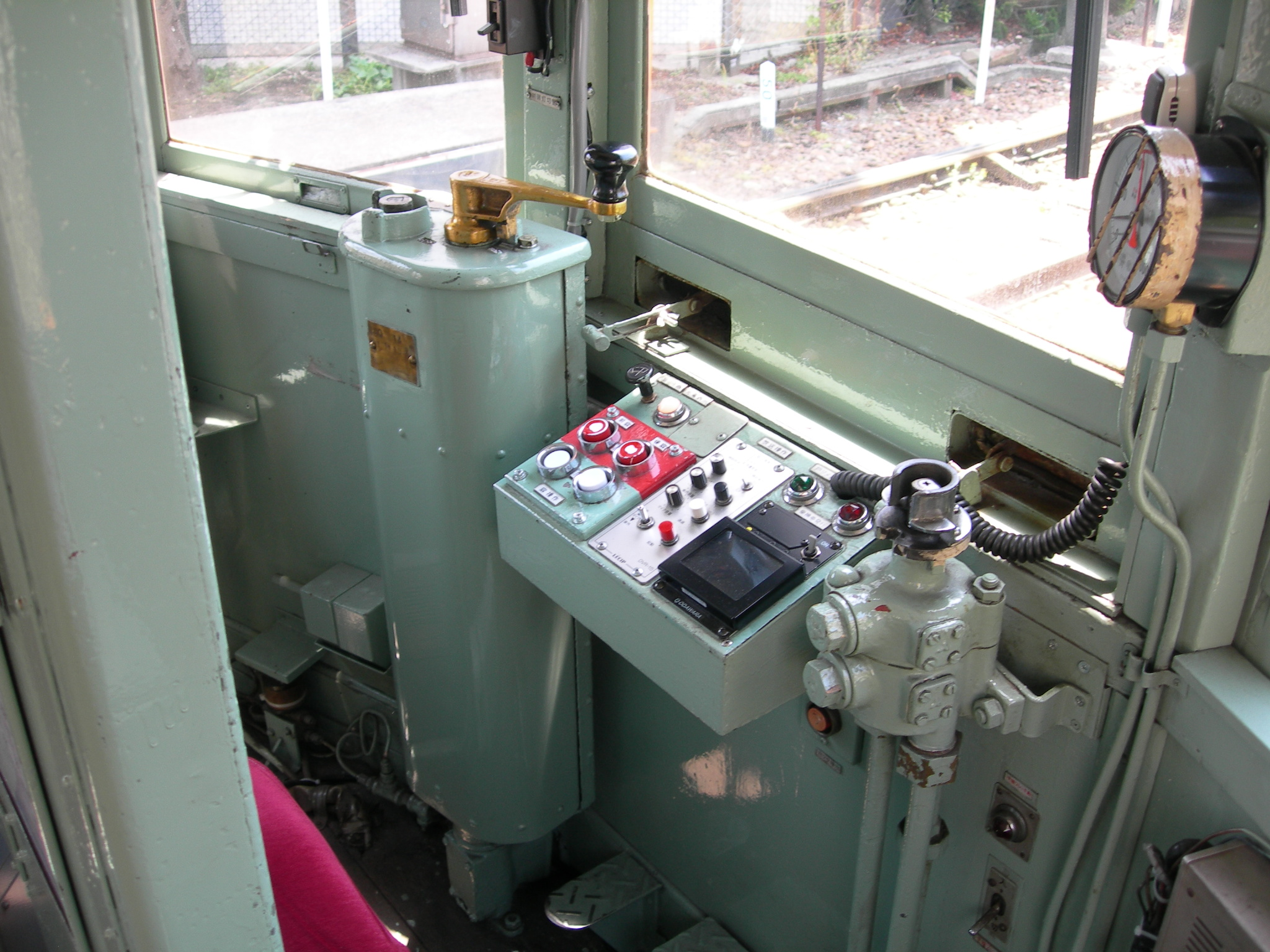 Hankai Tramway mo162 cab. taken in 2011.